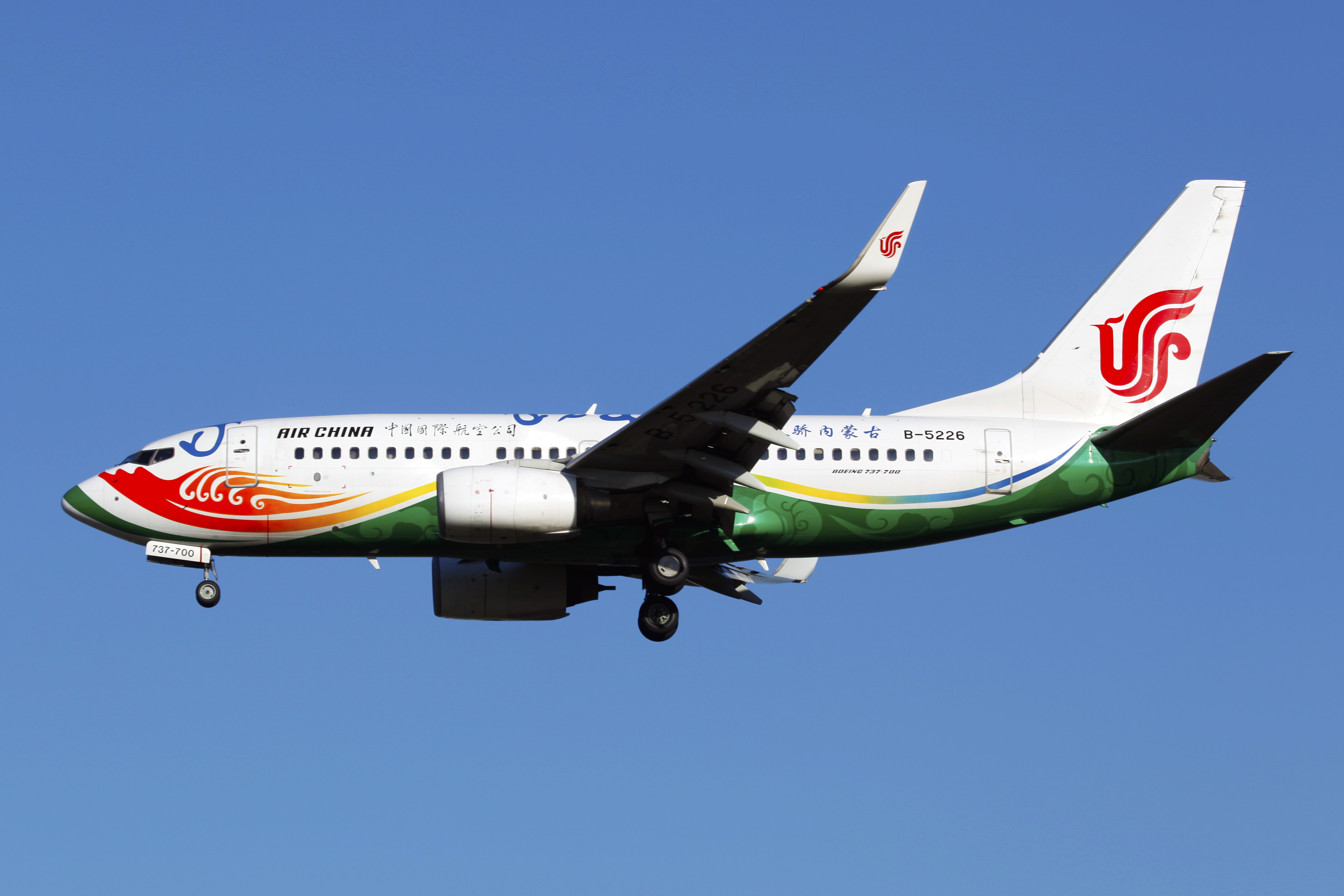 B-5226 | Air China Inner Mongolia | Boeing 737-79L(WL) | Neimenggu Livery | Beijing Capital International Airport [PEK]